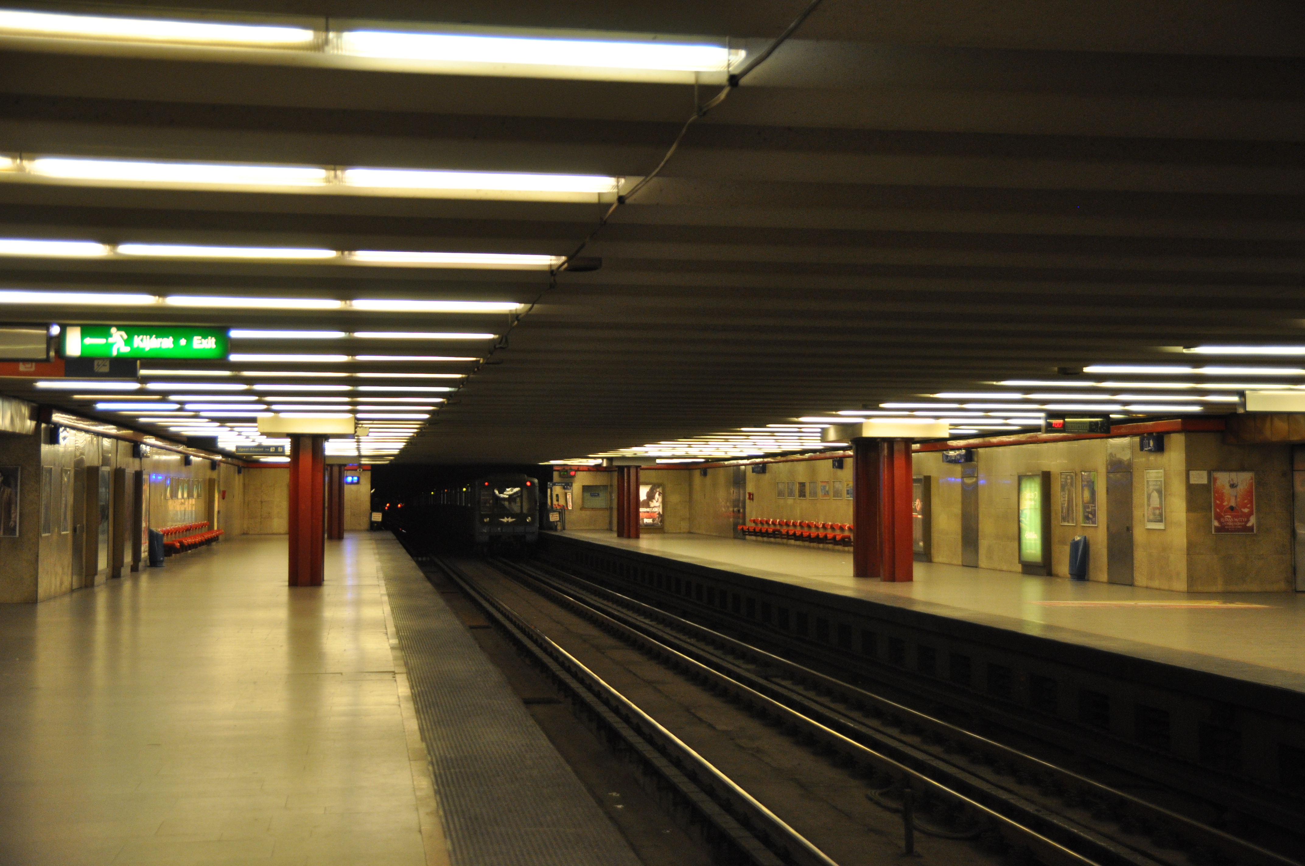 Budapest, metró 3, Árpád híd